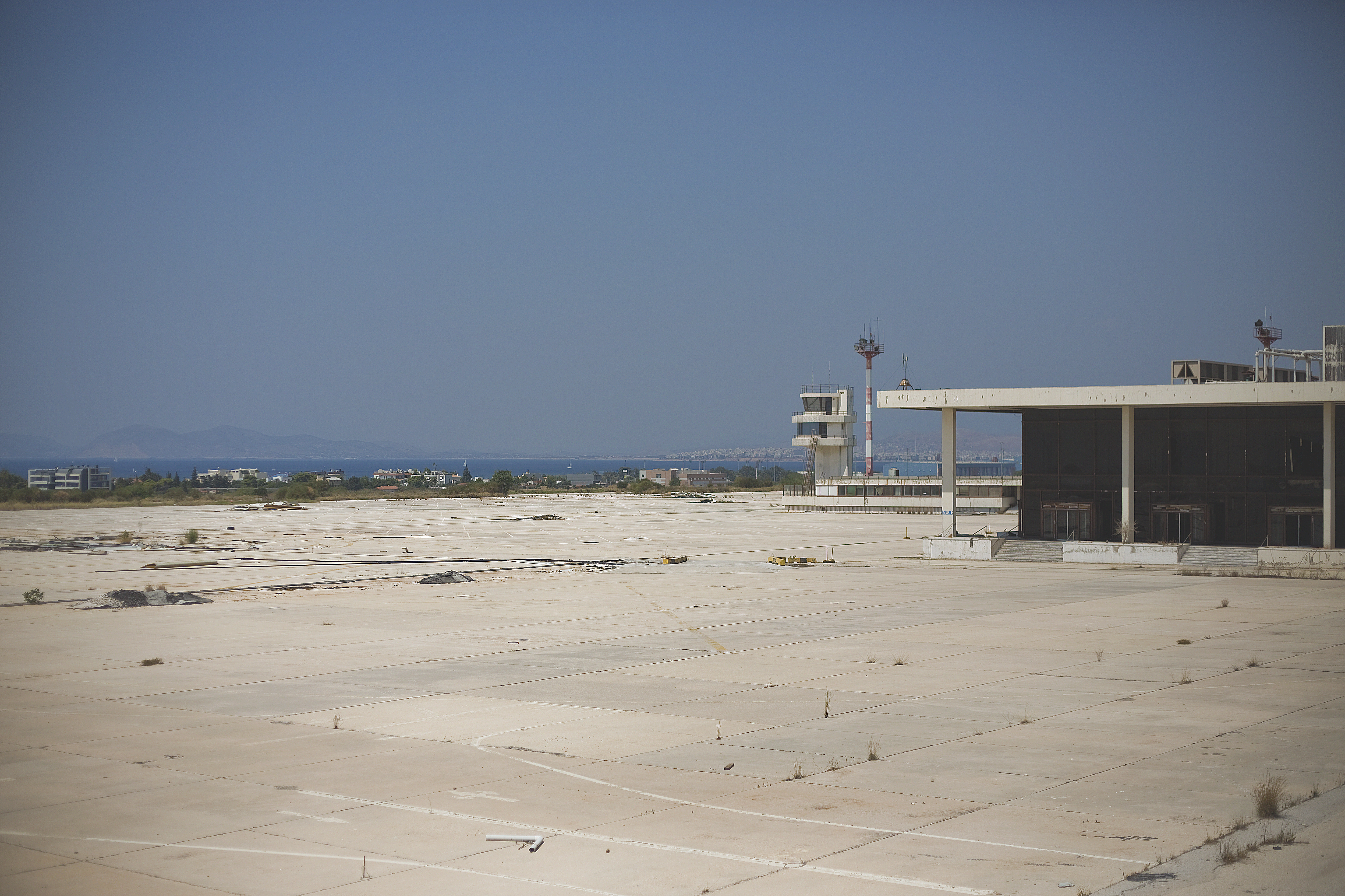 The tower of Ellinikon International Airport and what it looks like today.